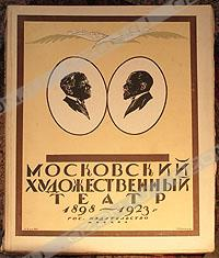 «Moscow Art Theatre», 1898-1923.